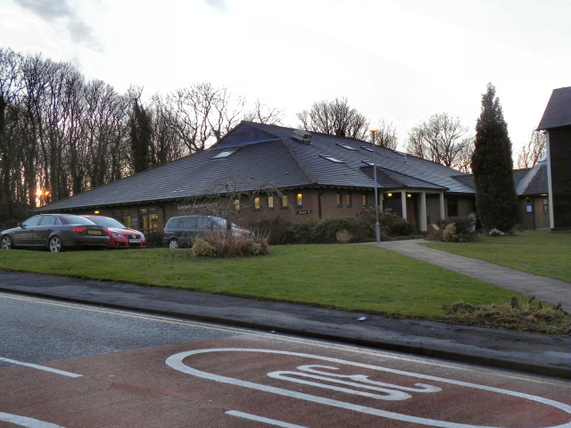 Lostock Parish Centre, Bolton, Greater Manchester